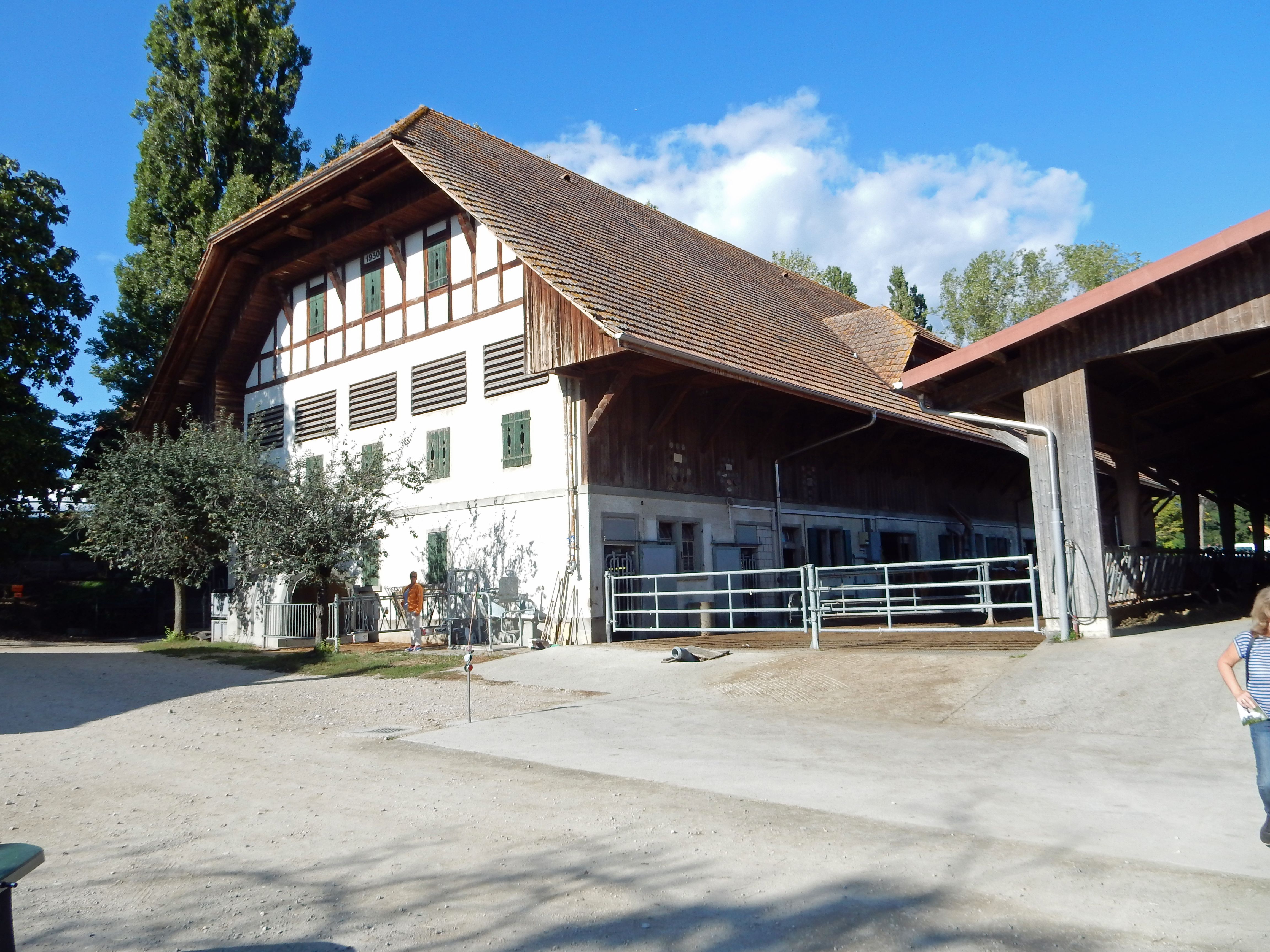 Nyon, Bois-Bougy, farm house 1930